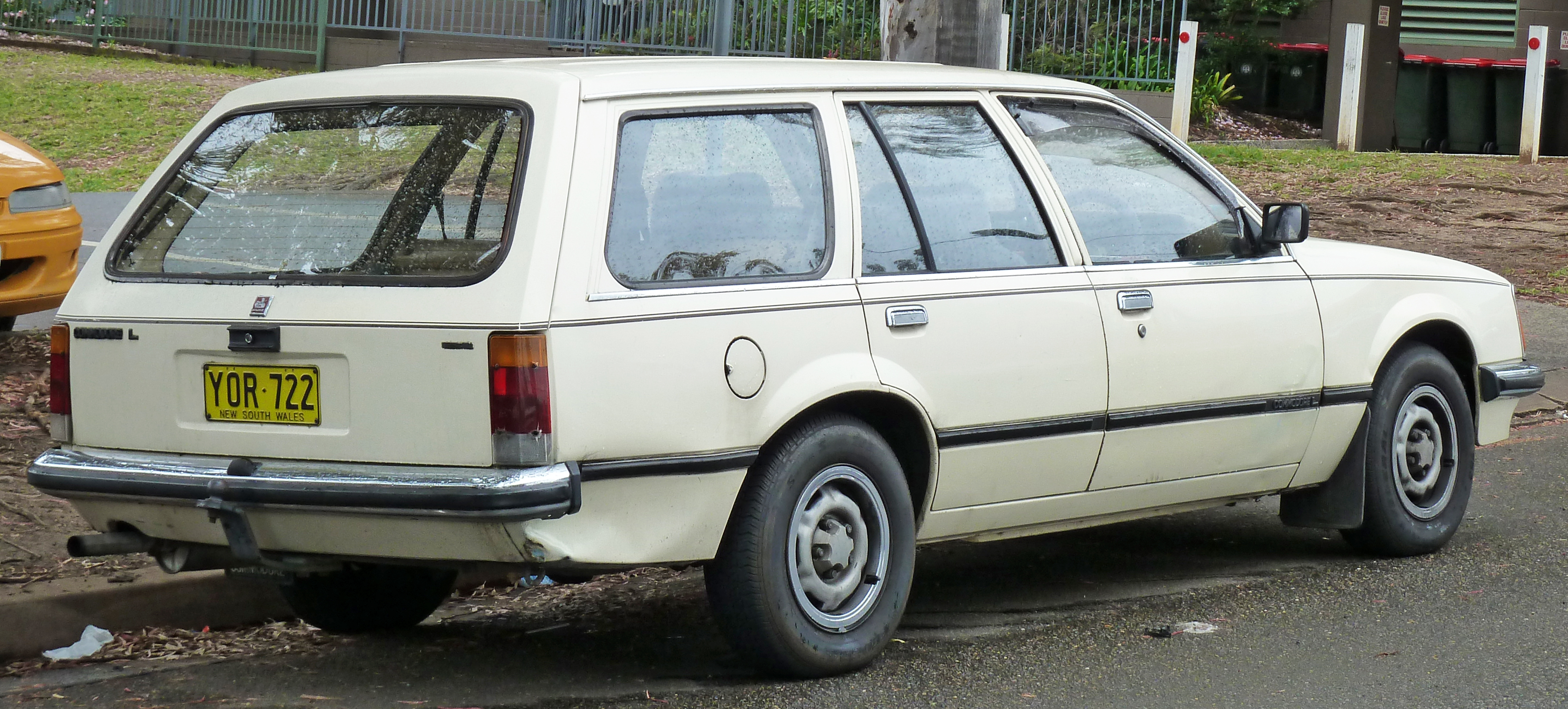 1980 Holden VC Commodore L station wagon. Photographed in Miranda, New South Wales, Australia.